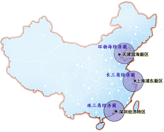 Location of Tianjin in China. Made by Photoshop.